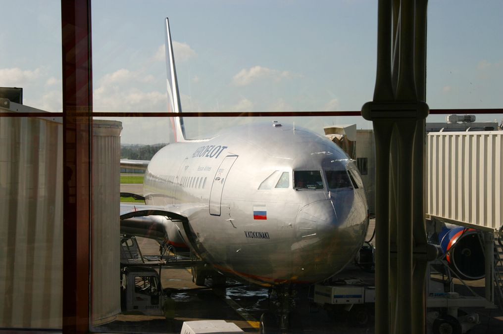 Aeroflot IL-96 at Terminal 3, Havana airport.